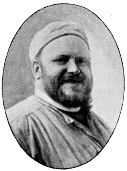 Image scanned from the book "Svenskt Porträttgalleri XX - Arkitekter, Bildhuggare, Målare m.fl. " ("Swedish Portrait Gallery XX - Architects, Sculptors, Painters, ") published 1901